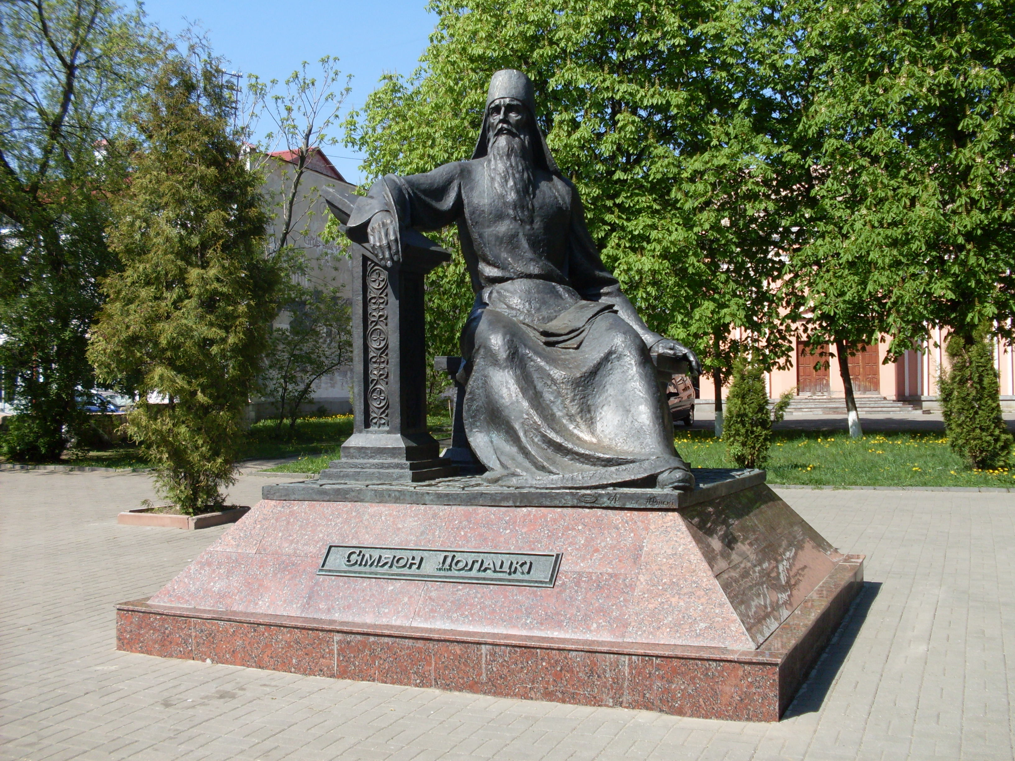 Monument to Symeon of Polotsk. 2004, Sculptor A. Finskij. Polotsk (Belarus)